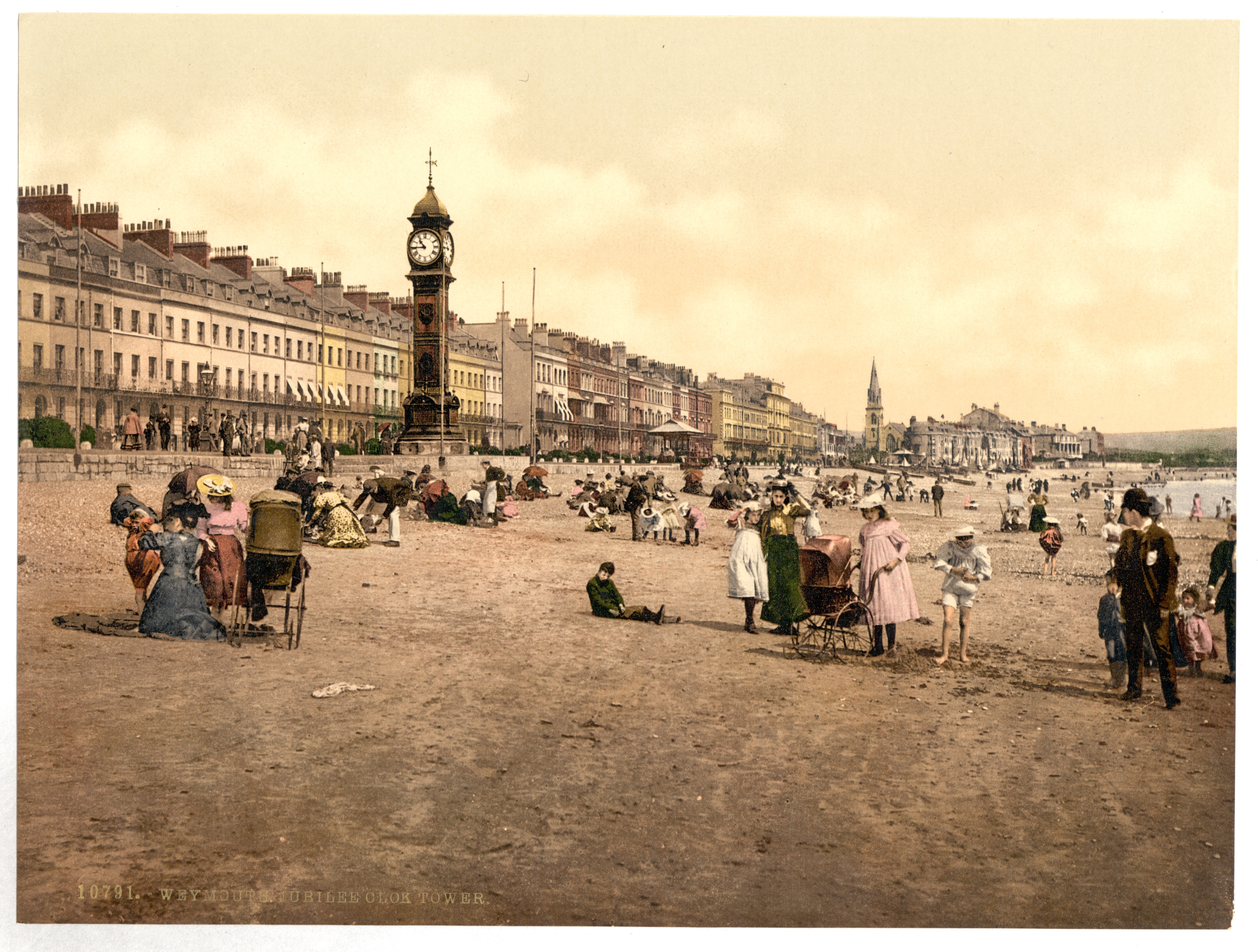 Print no. "10791".; Title from the Detroit Publishing Co., Catalogue J-foreign section, Detroit, Mich. : Detroit Publishing Company, 1905.; Forms part of: Views of England in the Photochrom print collection.